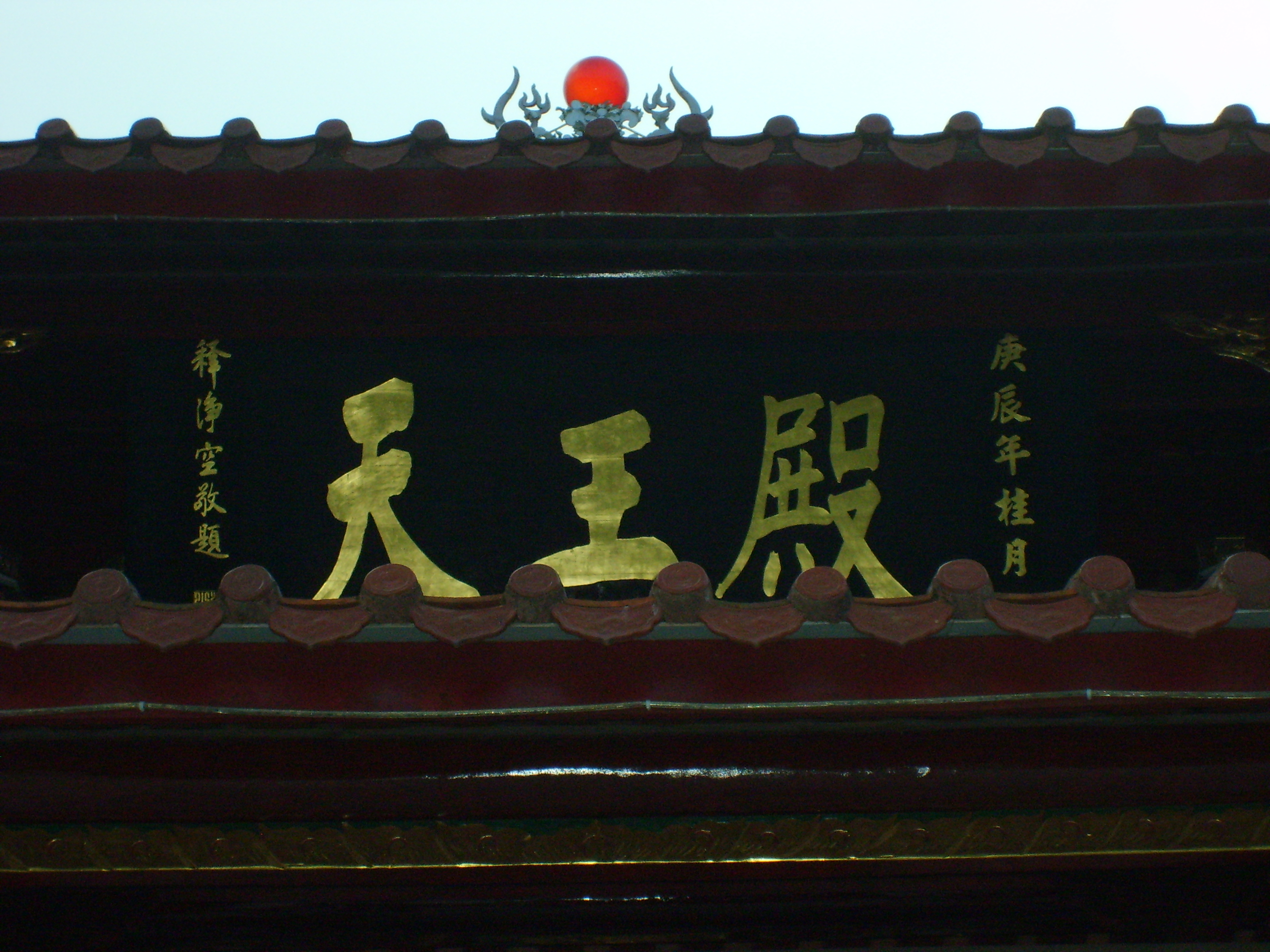 Heavenly King Hall, Lingying Temple